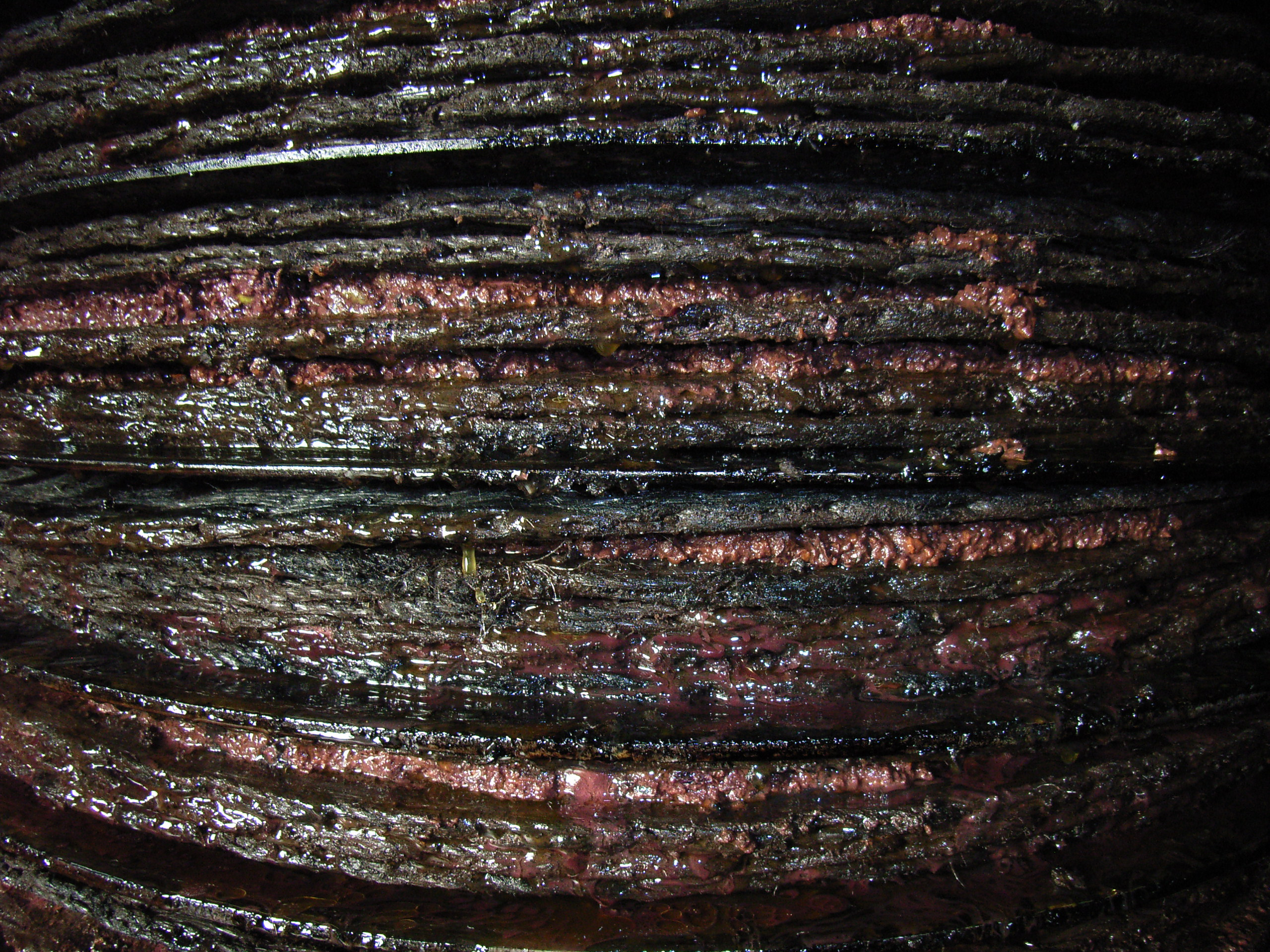 Detail of a stack of plastic fiber discs with olive paste in between. The stainless steel discs serve for equal pressure distribution.